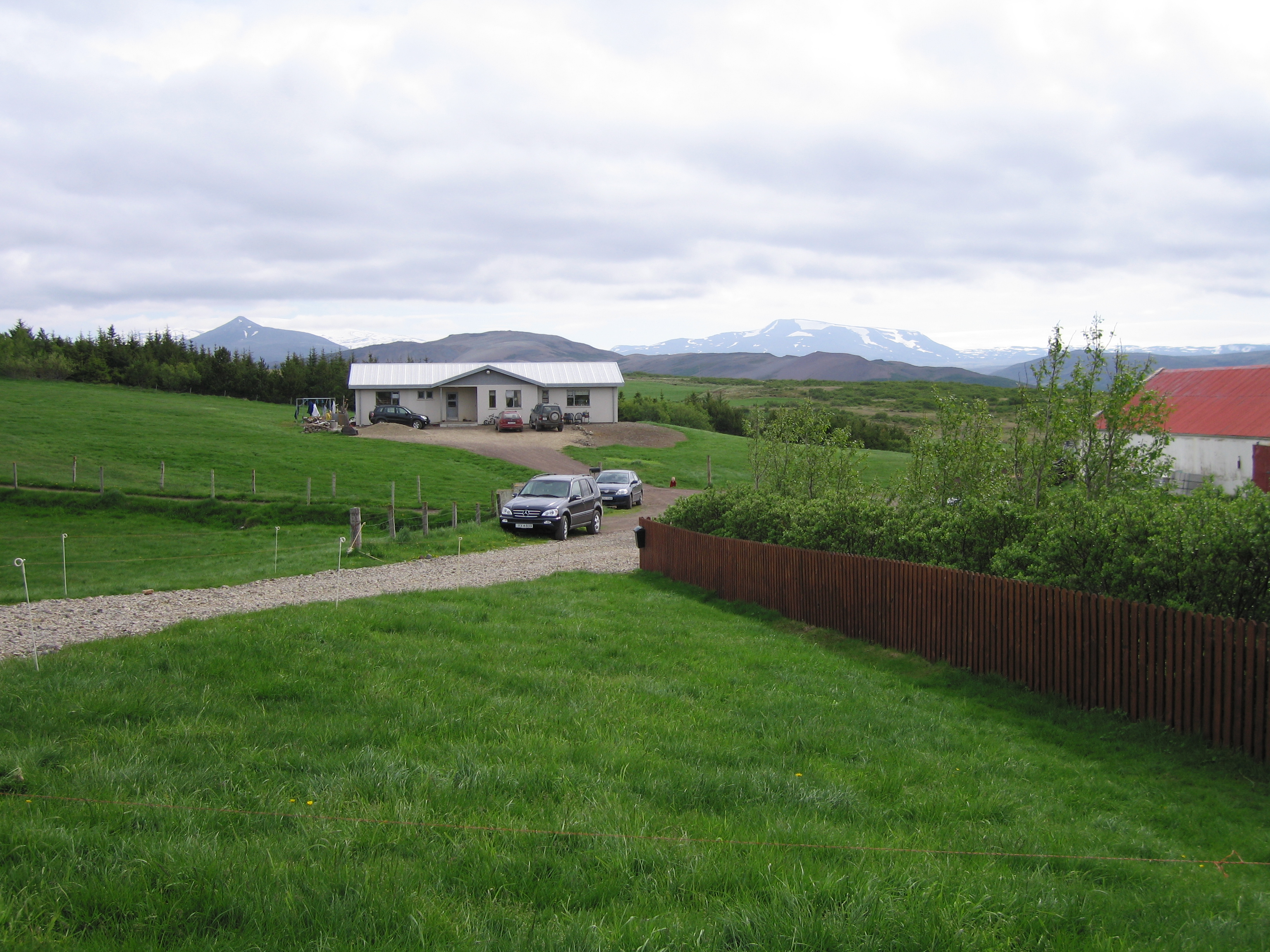 Looking east from Gilsbakki in Hvítársíða.